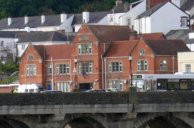 Bideford Police Station